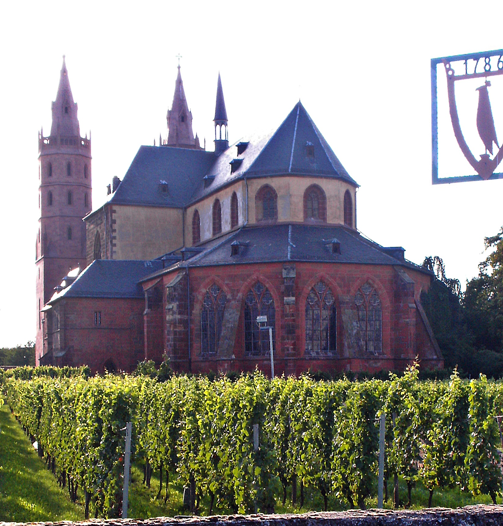 Liebfrauenkirche Worms, von Osten, mit Weinbergen